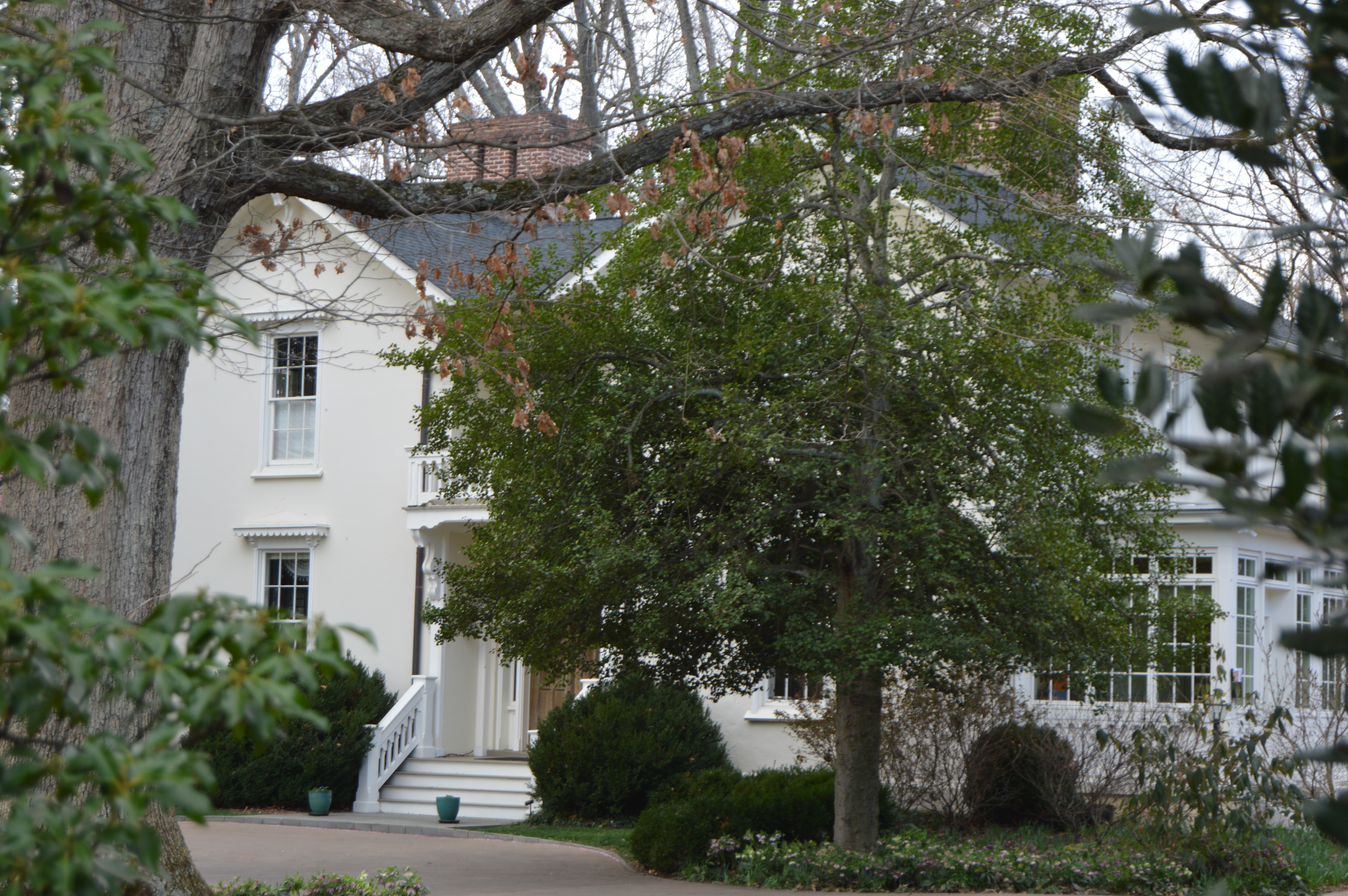 Front of the Judge William J. Robertson House, located at 705 Park Street in Charlottesville, Virginia, United States. Built in 1859, it is listed on the National Register of Historic Places.